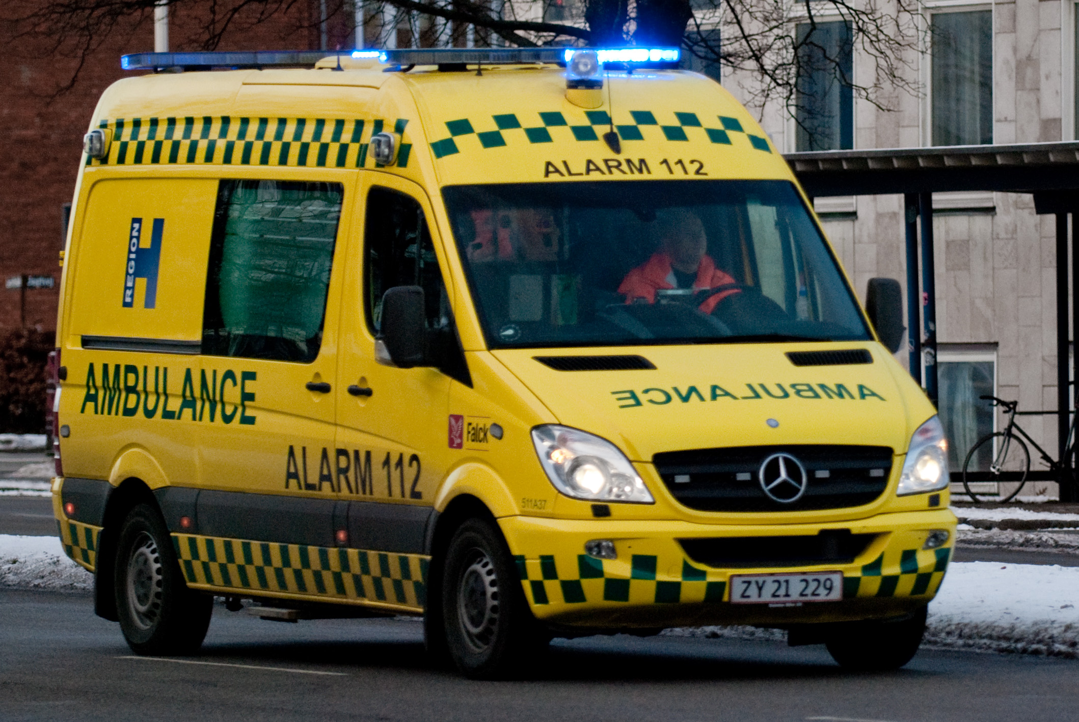 Danish Ambulance from Region Hovedstaden in the new design introduced in late 2009, with "AMBULANCE" in mirror writing ("ECNALUBMA")